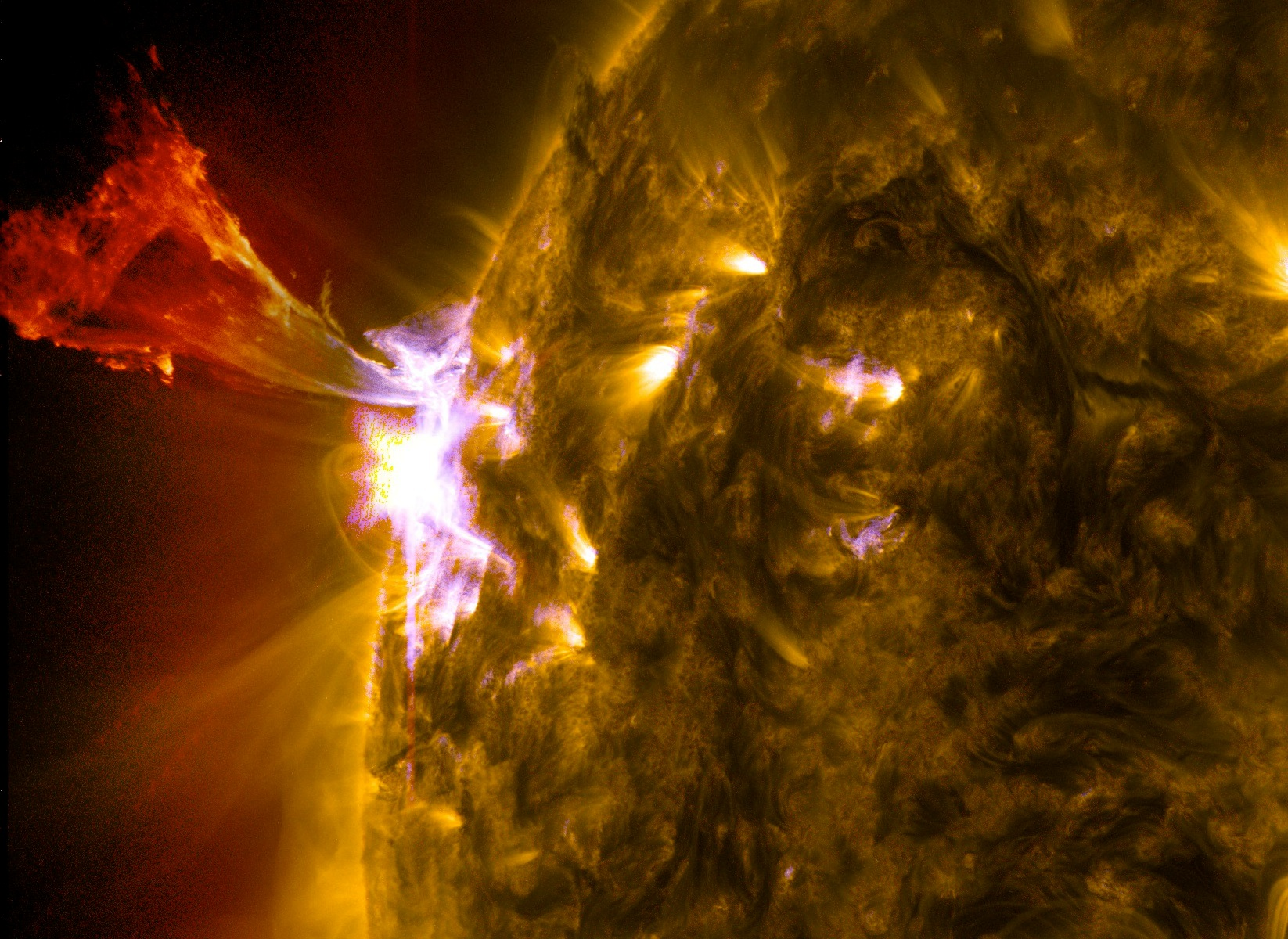 Solar flare Mid-level